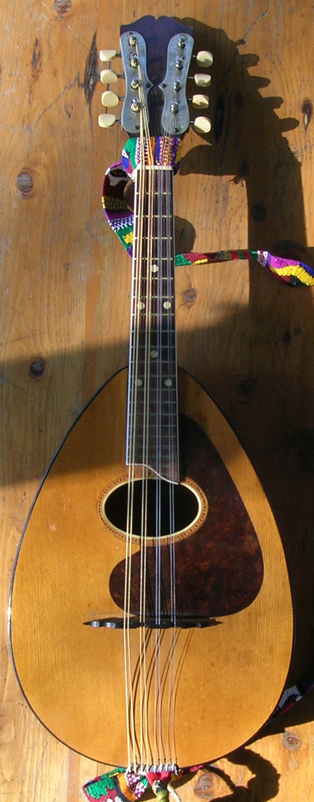 Picture of a Weymann mandolute. This mandolute from the 1920's or 1930's is one of the cheaper versions. It lacks the recessed sides and pearl inlays of the more expensive models.